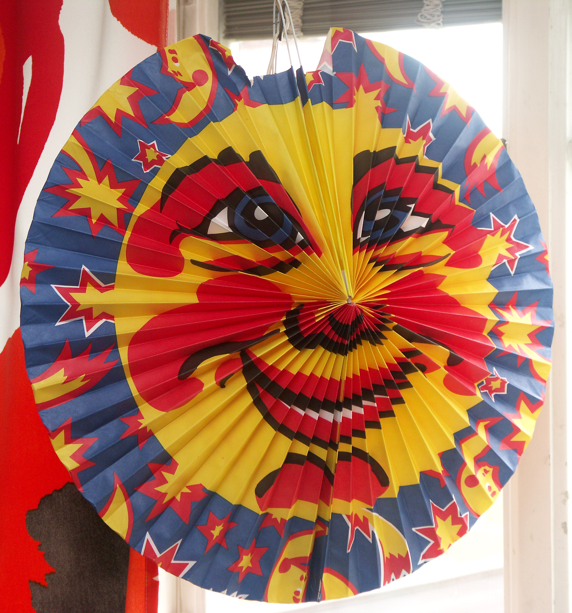 Traditional paper decoration lamp for Swedish crayfish feasts.